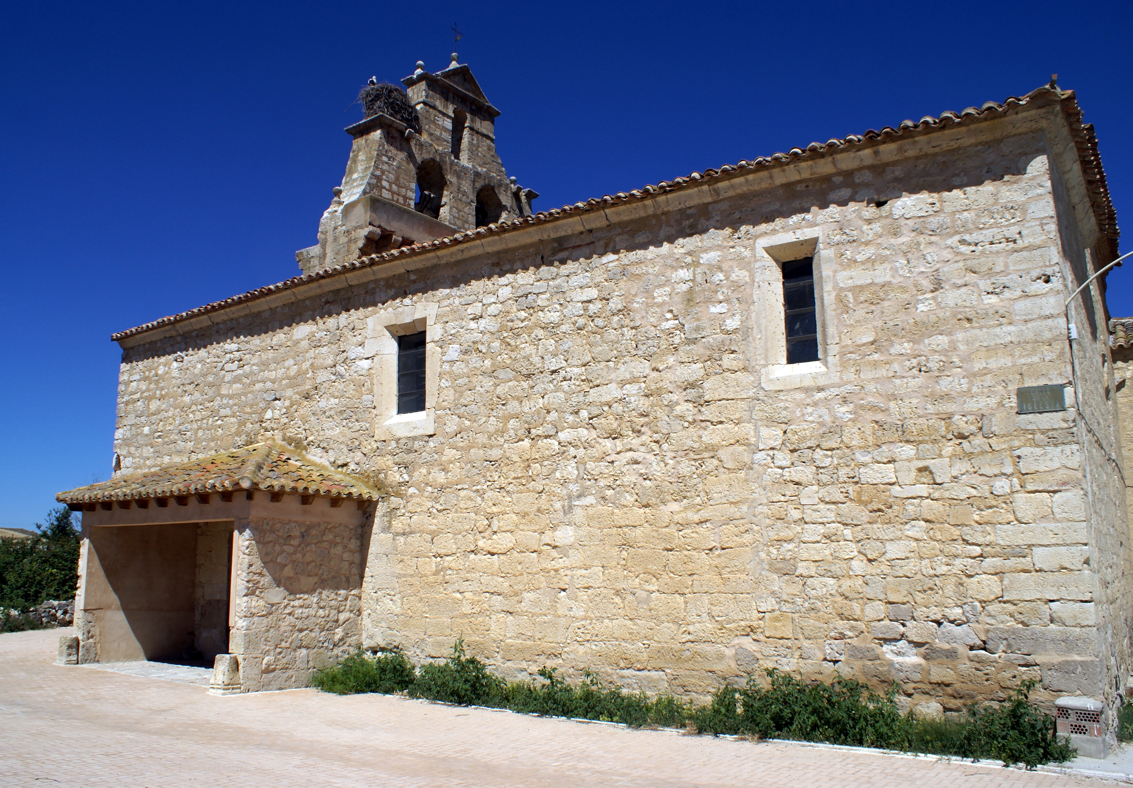 Church of El Salvador in Torrecilla de la Torre, Valladolid, Spain.